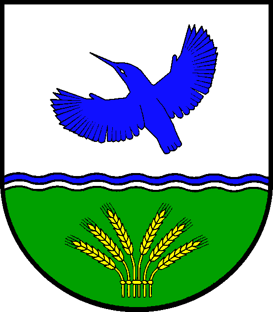 Coat of arms of the municipality Rodenbek in Schleswig-Holstein, Germany.